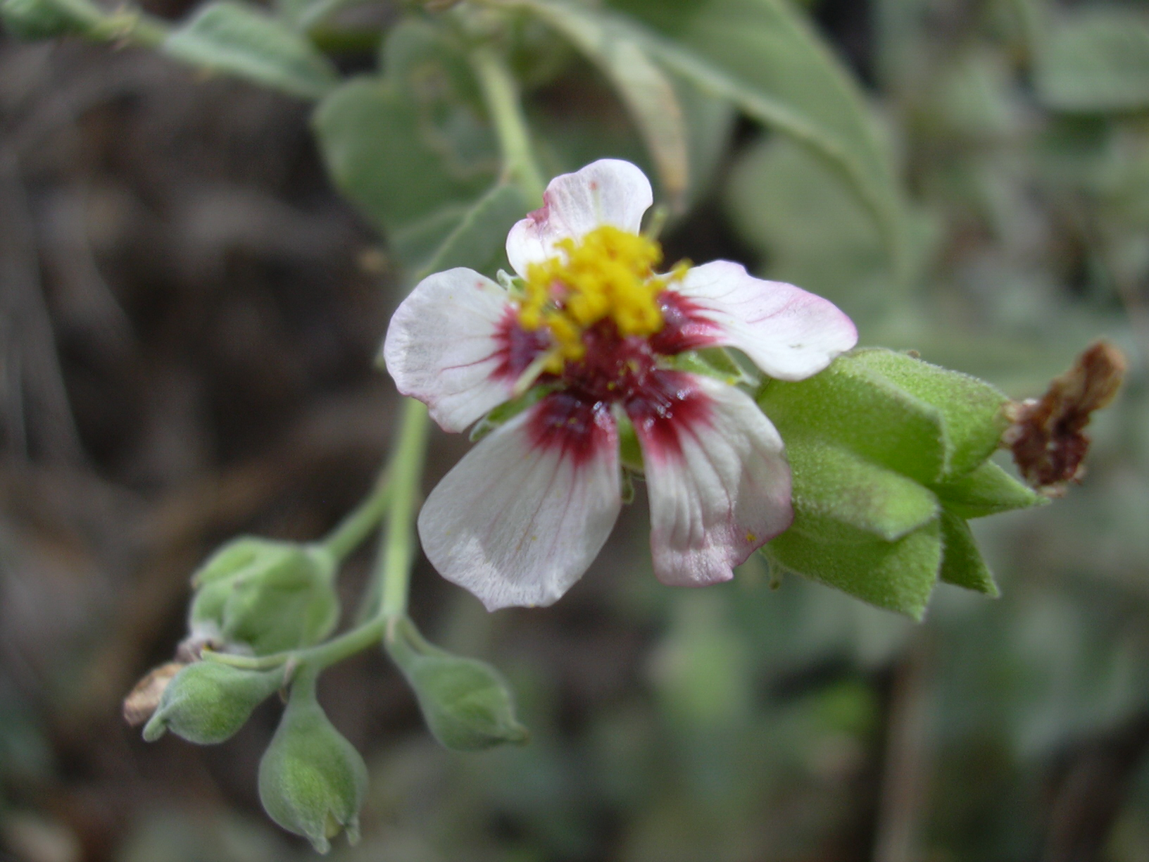 Abutilon incanum (flower). Location: Kahoolawe, Kealaikahiki